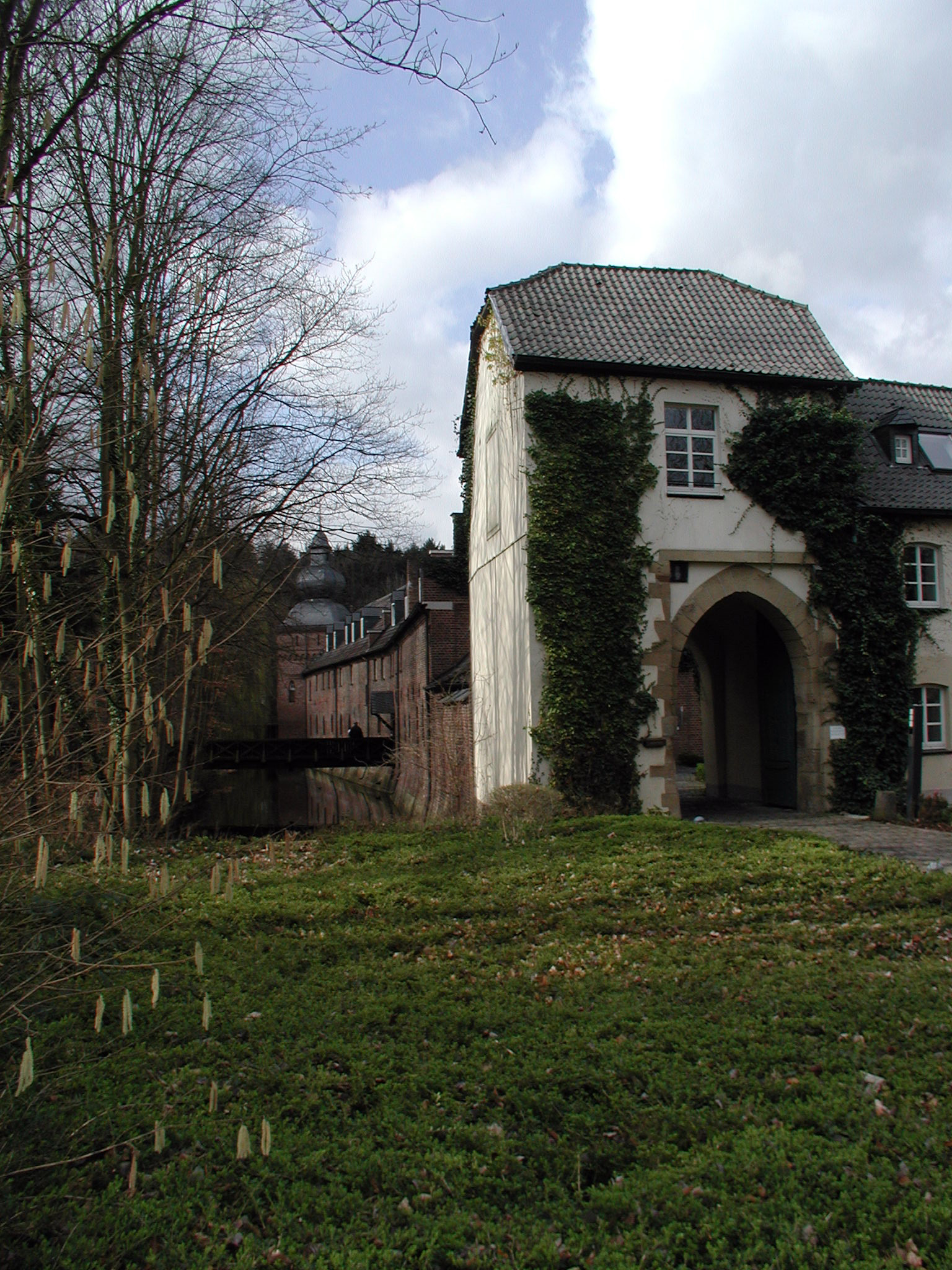 Gate of Castle Hemmersbach in Horrem, North Rhine-Westphalia